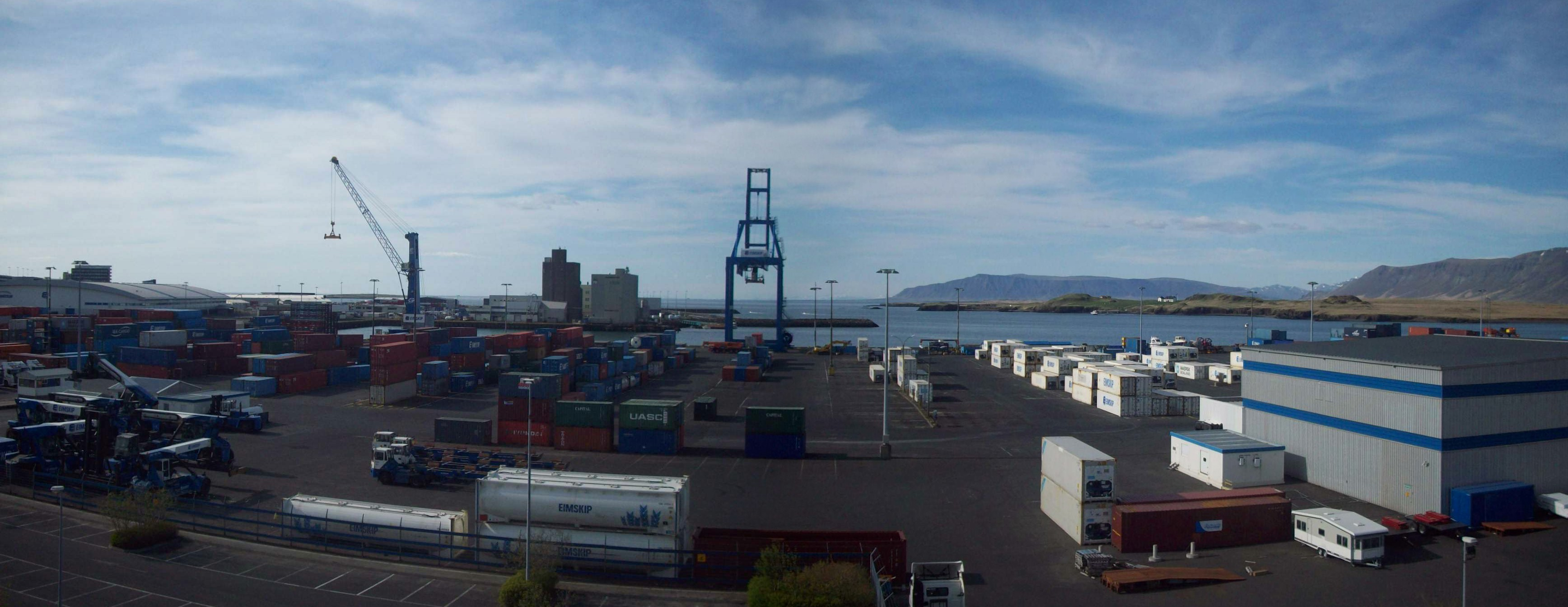 Sundahöfn a harbor in Reykjavík Iceland.